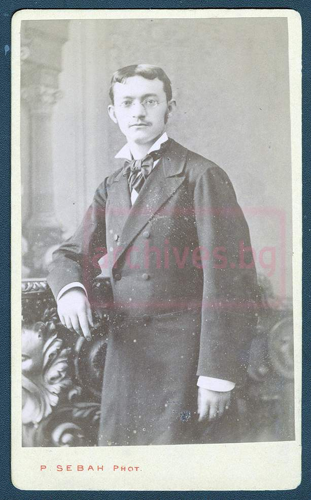 Ivan Karandzhulov by Pascal Sebah, 30 September 1881